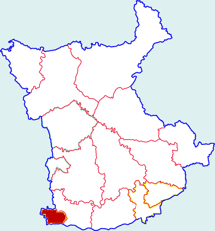 Location of Yangling district in Xianyang city, China